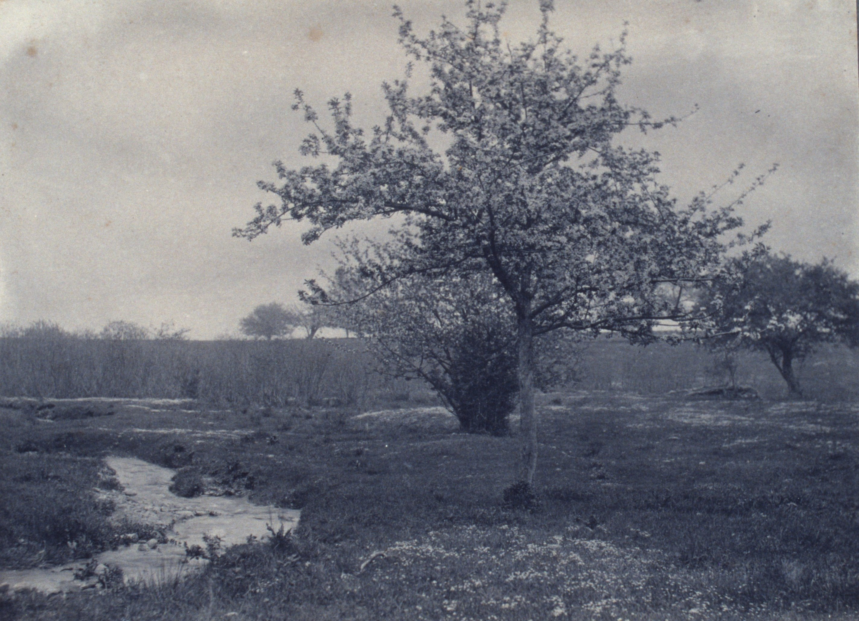 Title: In May / Allen. Abstract/medium: 1 photographic print : platinum ; 16 x 21 cm. mounted on dark gray mat, 26 x 31 cm.